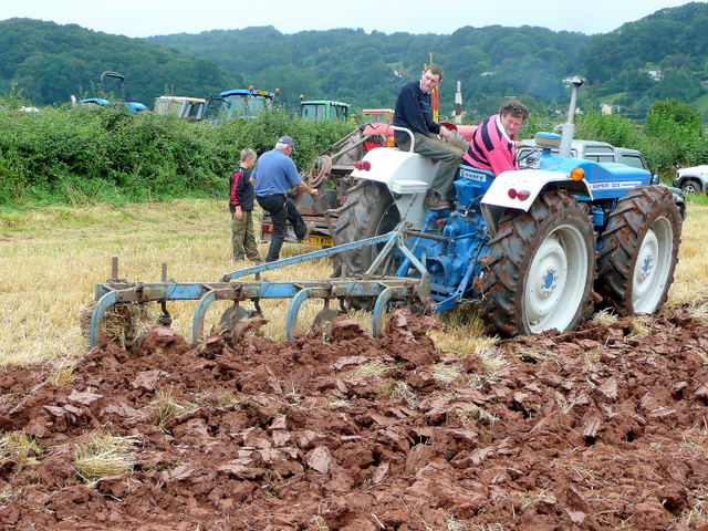 The Lea Show ploughing competition, 2009. A nice job from this 4WD Fordson County Super 6 dating back to around 1970. See 1468816 for the approach.